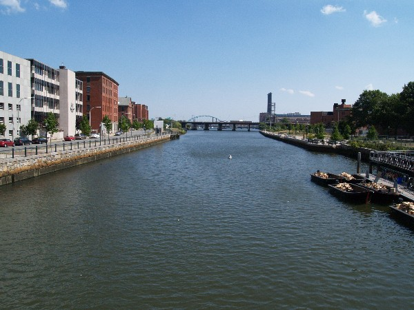 View of Providence River looking south, Rhode Island